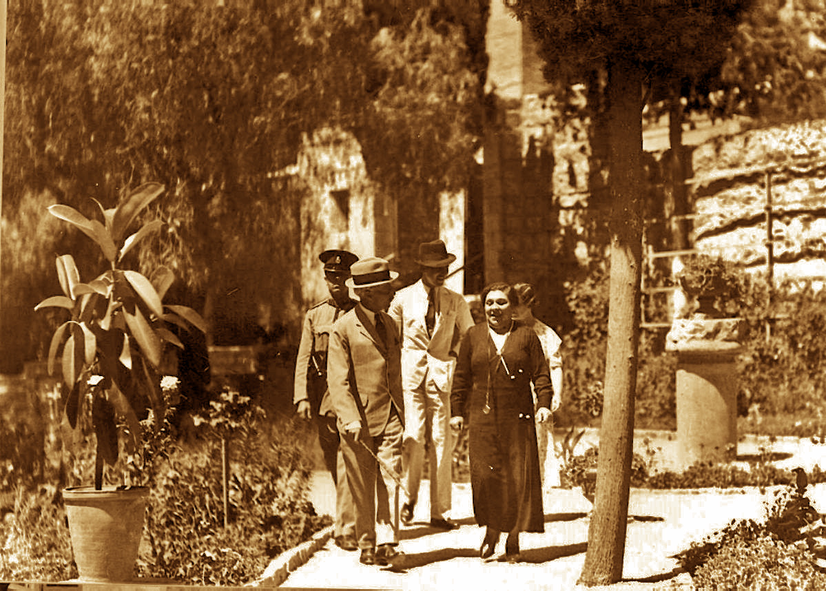 High Commissioner Wauchope visits the Evelina de Rothschild School for Girls in Jerusalem. Seen here With Ms. Annie Landau, principal of the school.